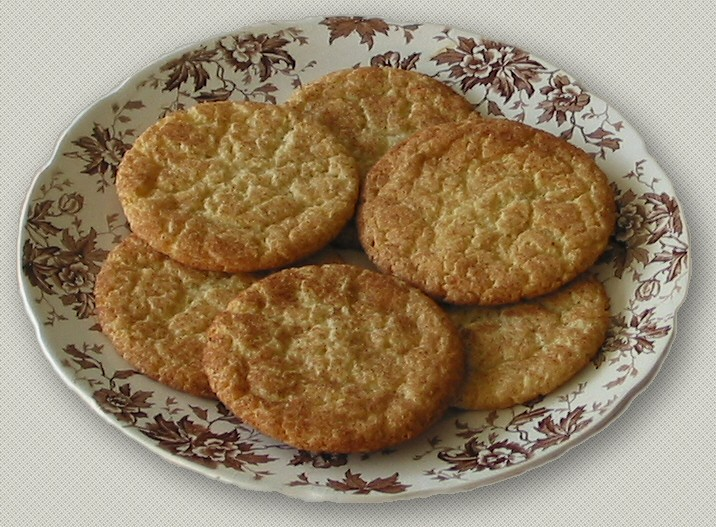 Snickerdoodles. Falmouth Maine